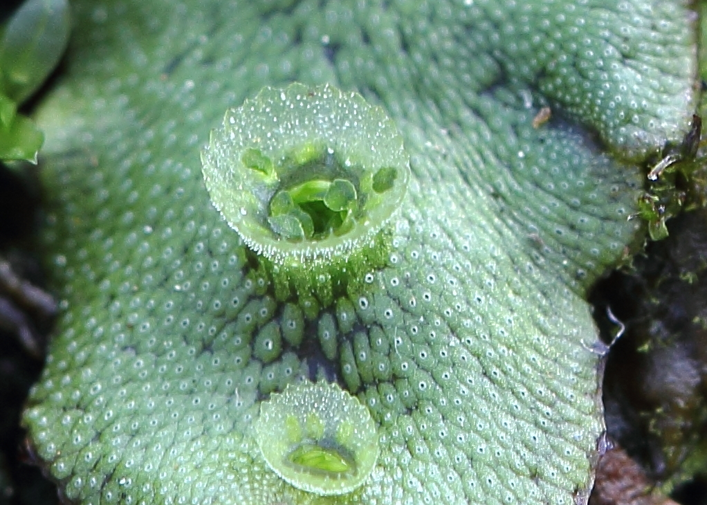 close-up of liverworts thallus